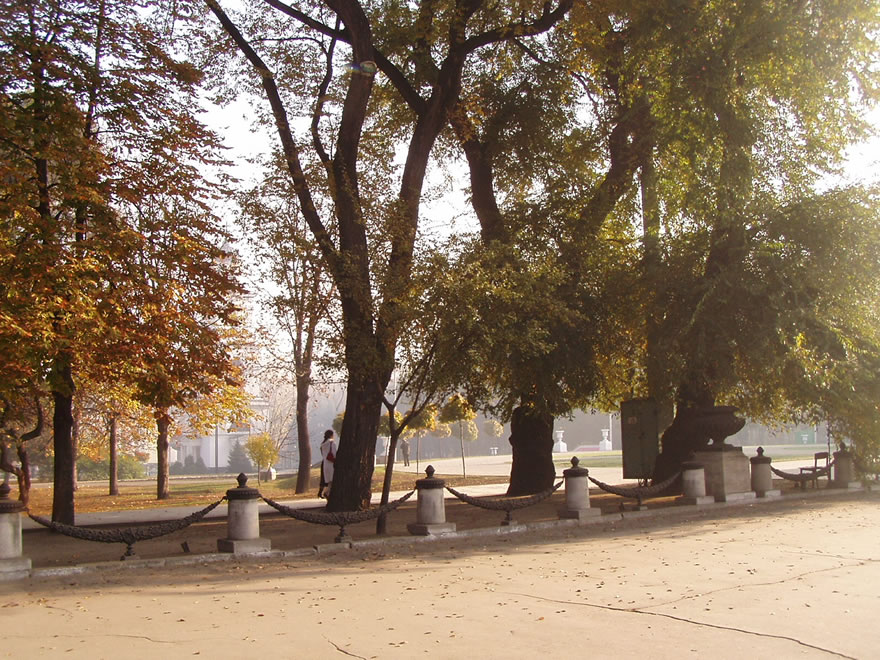 Cathedral Park in Chișinău